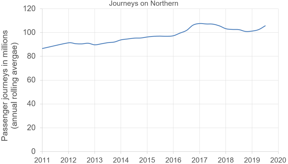 Passenger journeys on Northern, 2010/11 to Q1 2017/18 (in millions, annual rolling average)